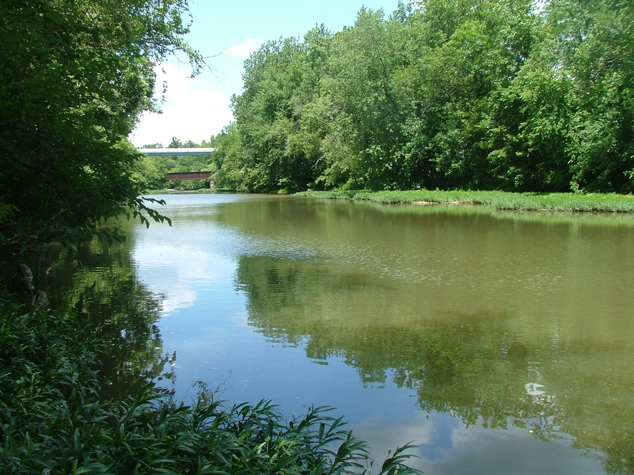 Paint Creek in Greenfield (looking upstream)